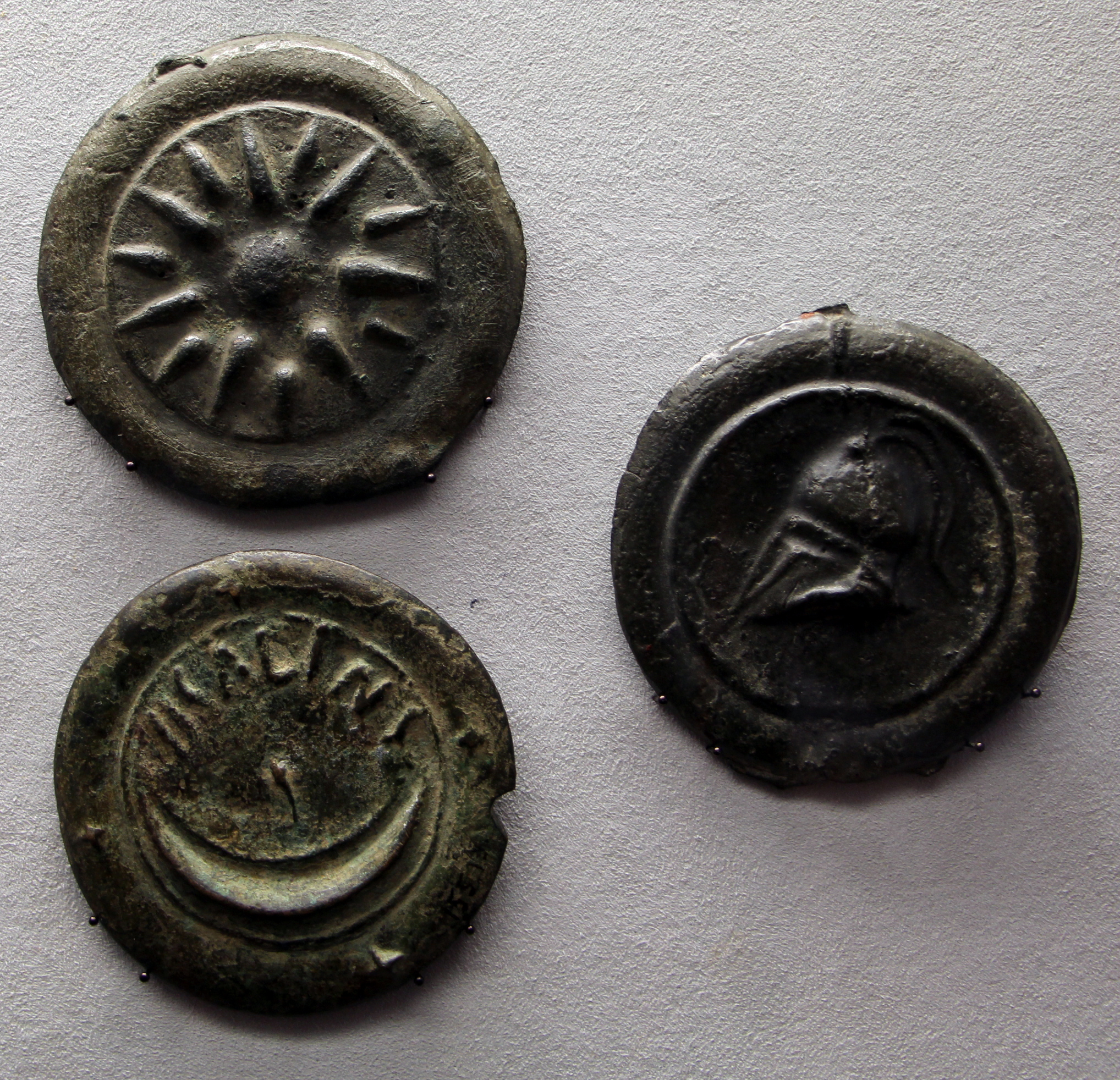 Etruscan coins in the Altes Museum Berlin